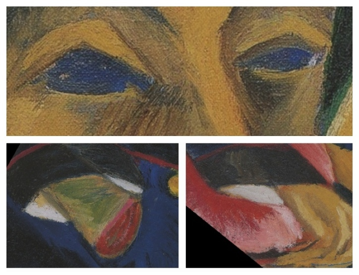 Close-up perspective upon Kirchner's eyes, stump and deformed hand within his 'Self-Portrait as a Soldier'